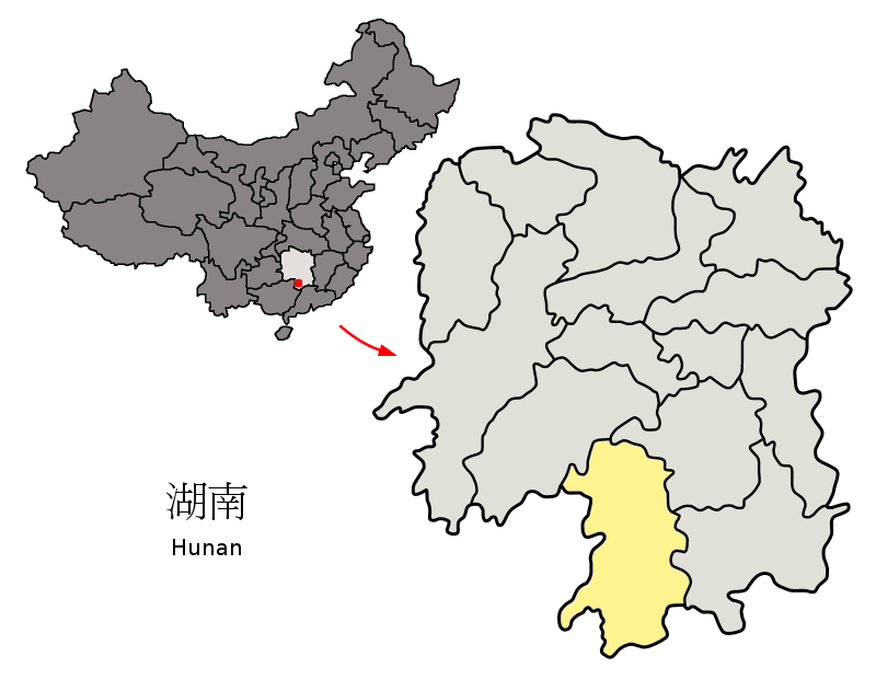 Location of Yongzhou Prefecture (yellow) within Hunan Province of China Map drawn in december 2007 using various sources, mainly : Hunan Province administrative regions GIS data: 1:1M, County level, 1990 Hunan Counties map from